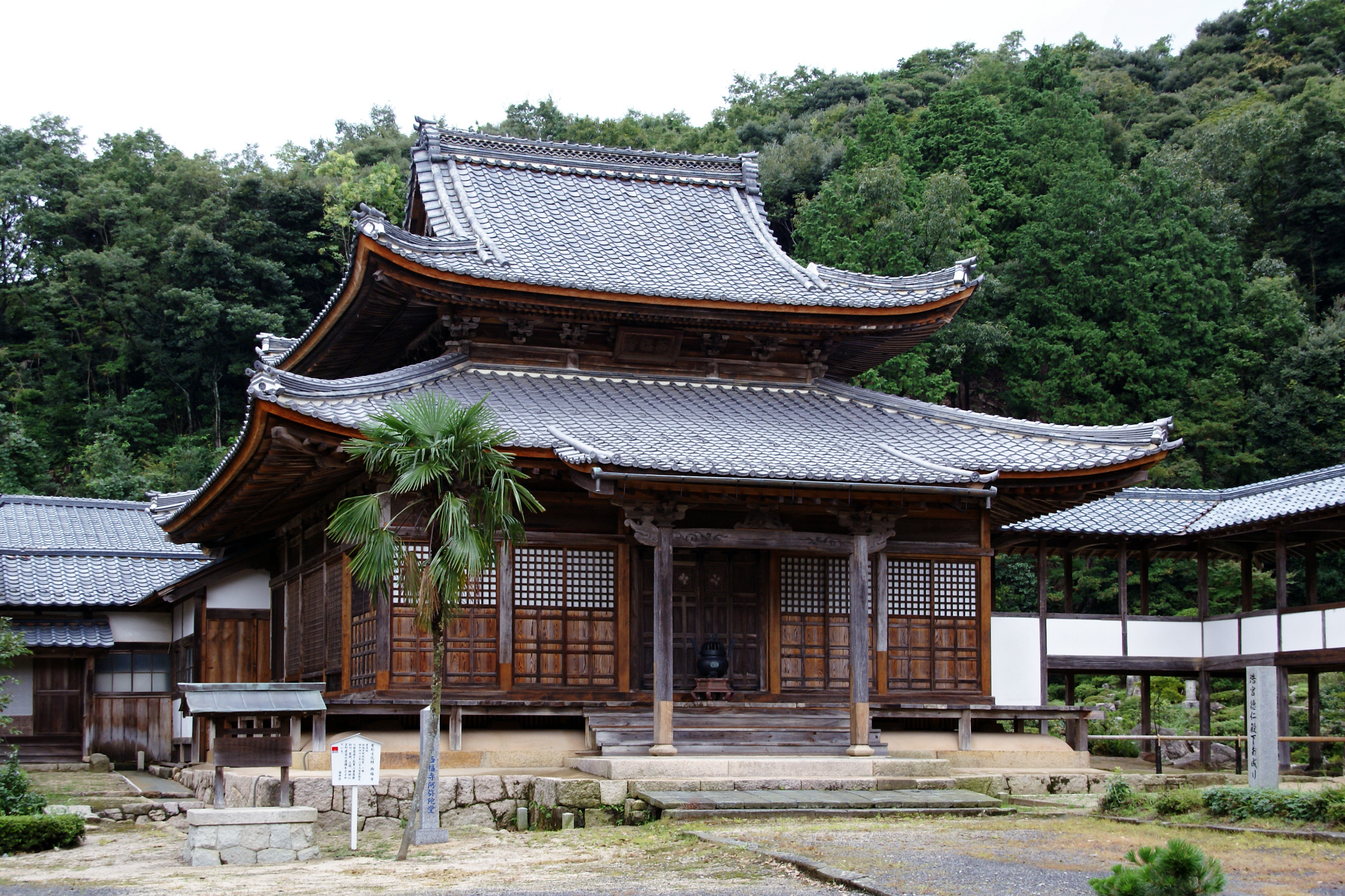 Saifuku-ji, Tsuruga, Fukui prefecture, Japan